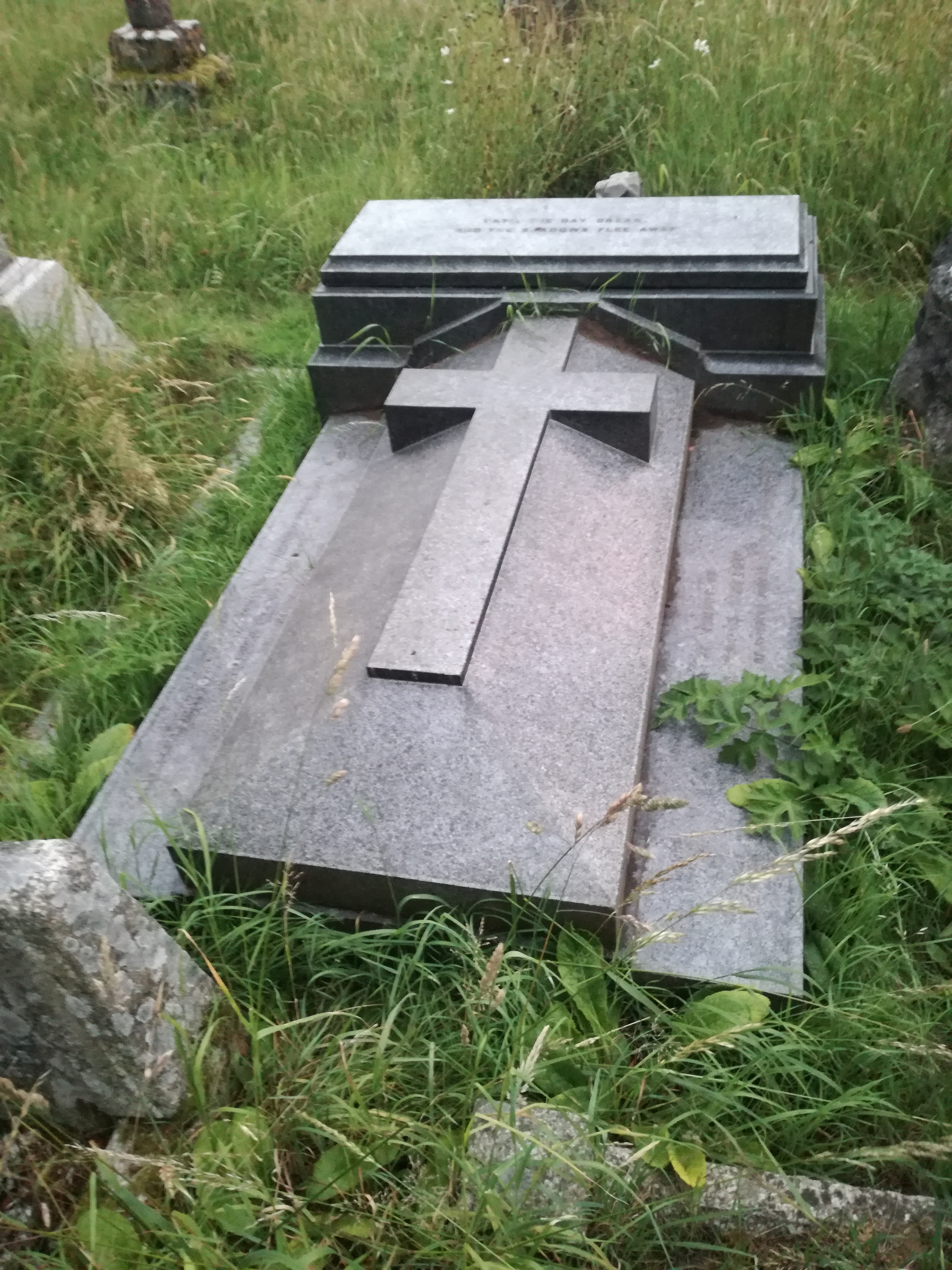 Grave of Whitaker Wright in Witley, Surrey